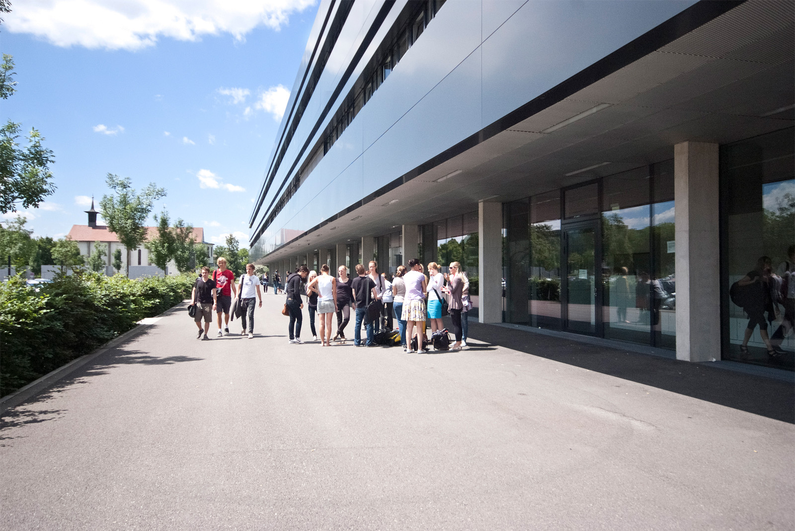 Neu-Ulm University of Applied Sciences (HNU): Main building with view to the west. In the background: The baptist "Friedenskirche" (Church of peace)